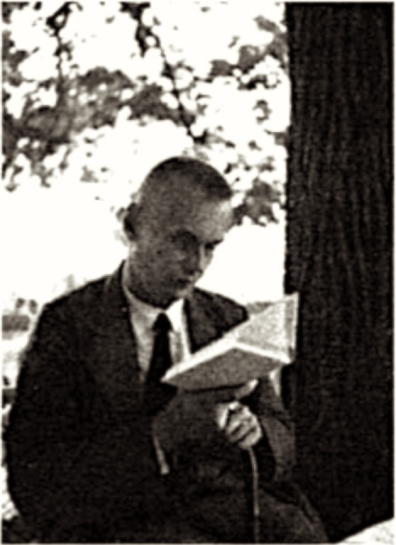 botanist Karl von Poellnitz